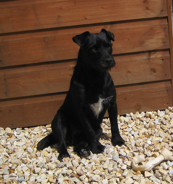 relaxing in the back yard